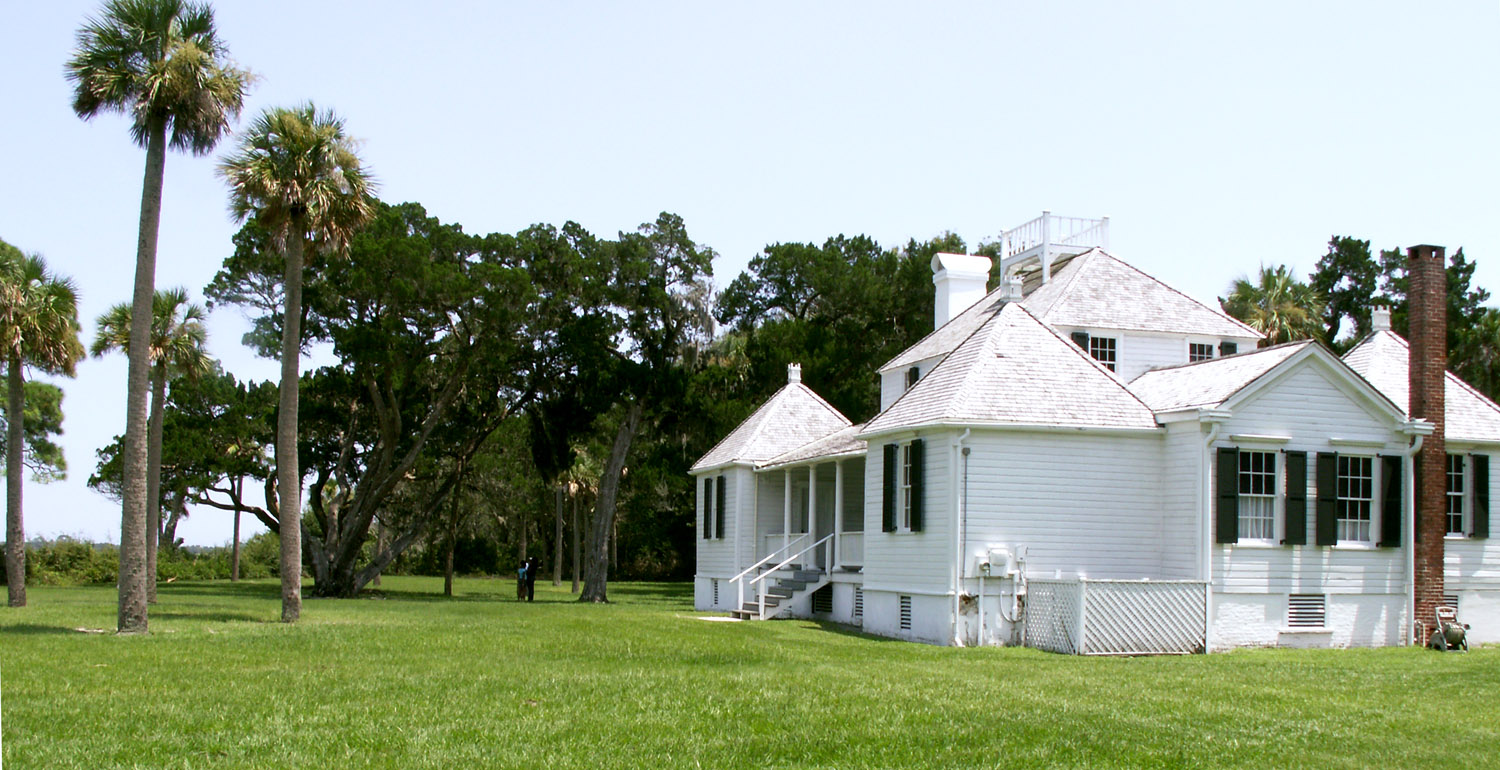 Rear of the main house at Kingsley Plantation on Fort George Island, Florida